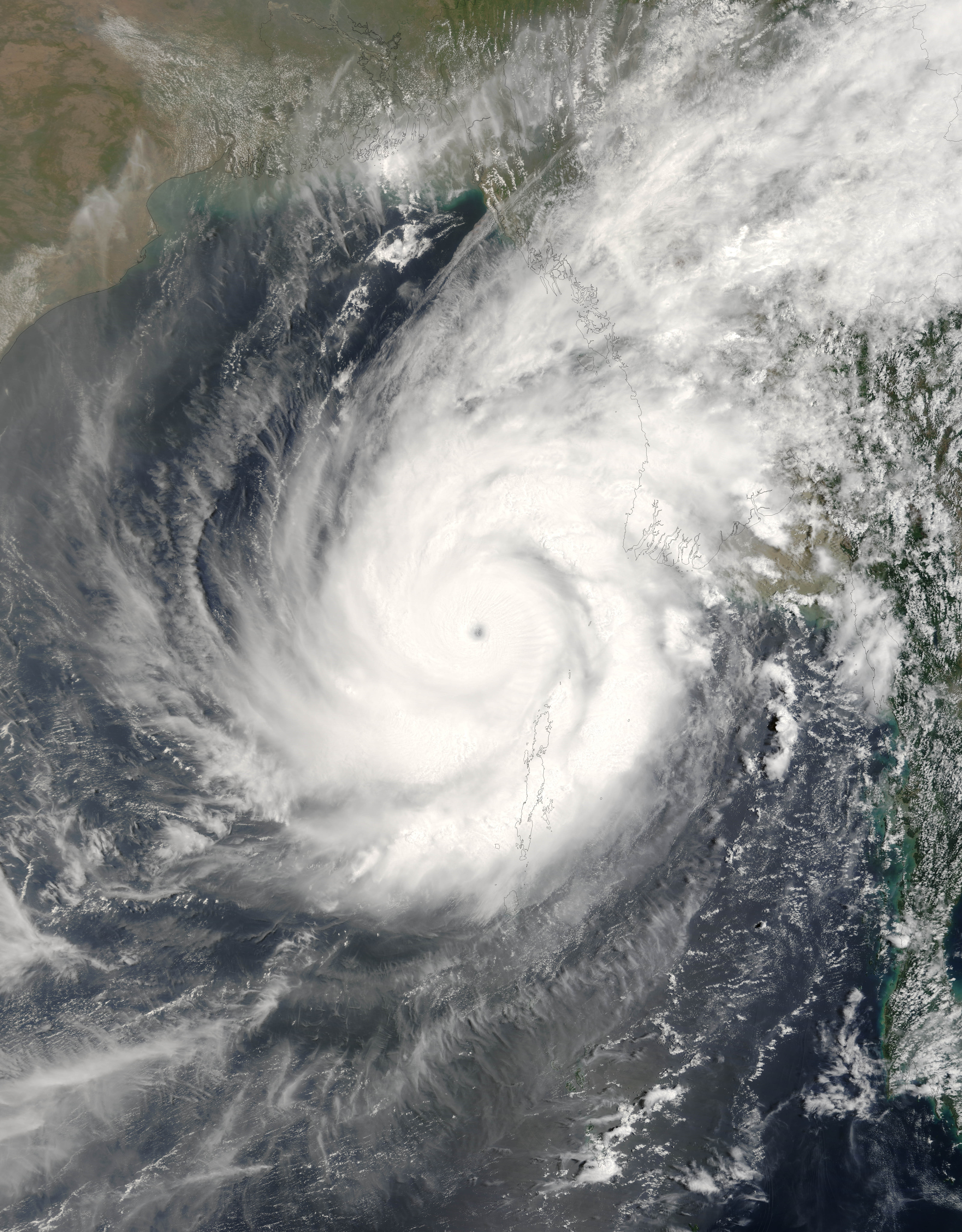 Tropical Cyclone Mala formed in the Bay of Bengal on April 24, 2006. The cyclone has been gradually building strength and size. As of April 28, it was heading towards Myanmar, possibly coming ashore there on or around April 29. This photo-like image was acquired by the Moderate Resolution Imaging Spectroradiometer (MODIS) on the Terra satellite on April 28, 2006, at 10:05 a.m. local time (04:05 UTC). Cyclone Mala was quite transformed from two days prior. At the time of this image, the storm had the well-developed eye, tight-wound shape, and strong winds of a powerful storm. Sustained, peak winds in the storm system were roughly 210 kilometers per hour (130 miles per hour) around the time the image was captured. The high-resolution image provided above is provided at the full MODIS spatial resolution (level of detail) of 250 meters per pixel. The MODIS Rapid Response System provides this image at additional resolutions.